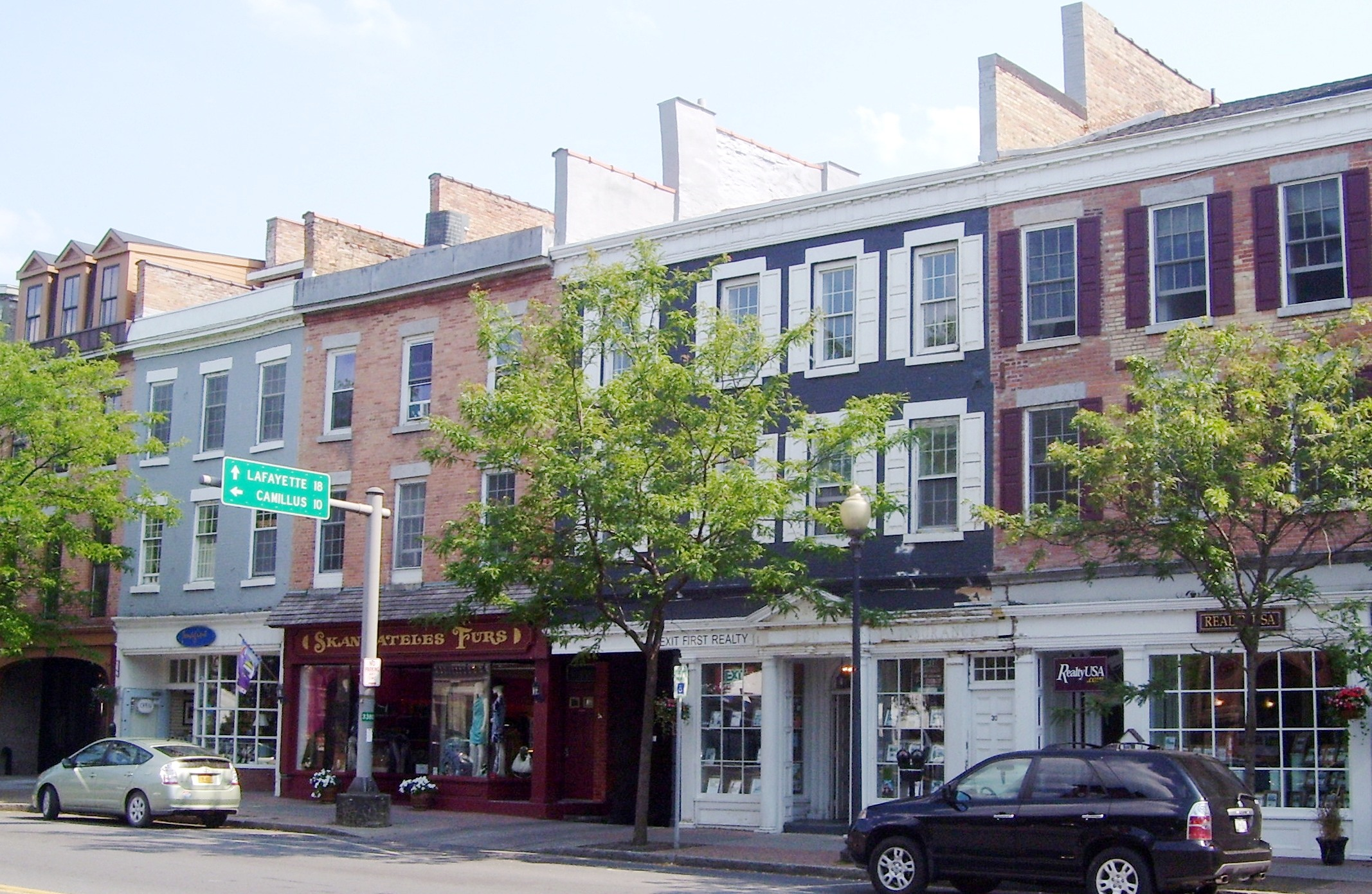 The buildings on the south side of East Genesee Street in Skaneateles, New York from #28 through #42 (right to left). The original buildings of this downtown business district were destroyed by fire in 1835. The buildings are all located within the Skaneatles Historic District. 28 (right) - 1837, commercial row building, Federal style (Realty USA) 32 - 1836-50, commericial row building, Federal style (Exit Realty) 36 - 1836, commercial row building (Skaneatles Furs) 38 - 1836, commercial row building (Imagine) 42 (left) - 1836, commercial row building (Tranquility Salon) (Source: [1])